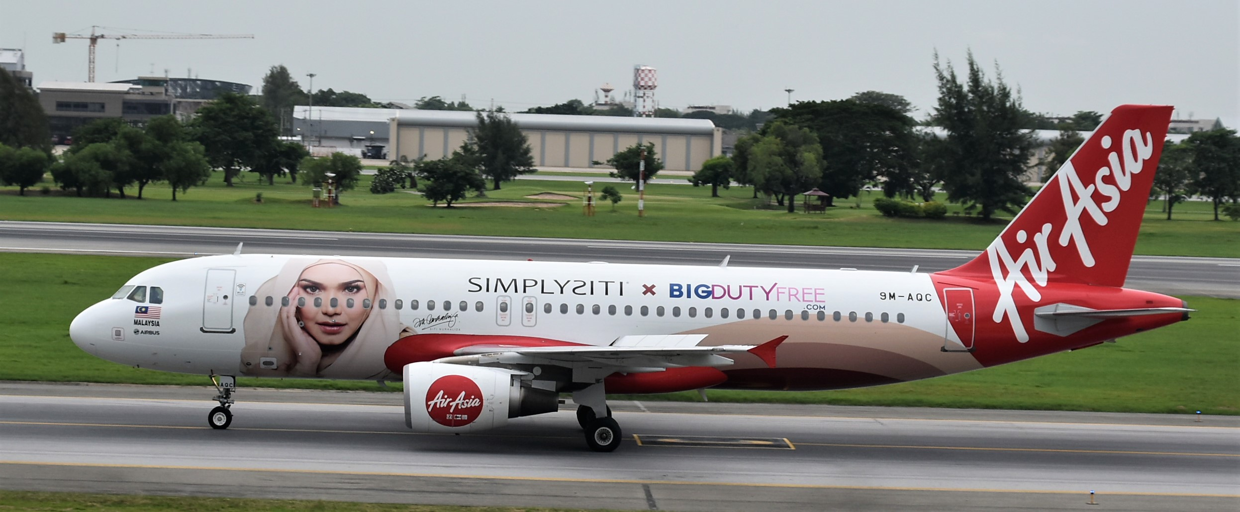 Airbus A320 of AirAsia with add'l. "SimplySiti x Duty Free,com" titles/clrs.,at Bangkok-DMK, 19/07/17.